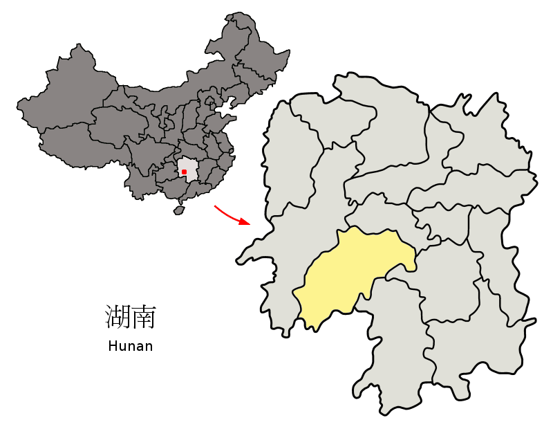 Location of Shaoyang Prefecture (yellow) within Hunan Province of China Map drawn in december 2007 using various sources, mainly : Hunan Province administrative regions GIS data: 1:1M, County level, 1990 Hunan Counties map from